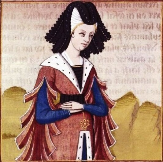 Sempronia, the wife of Decimus Brutus the Elder